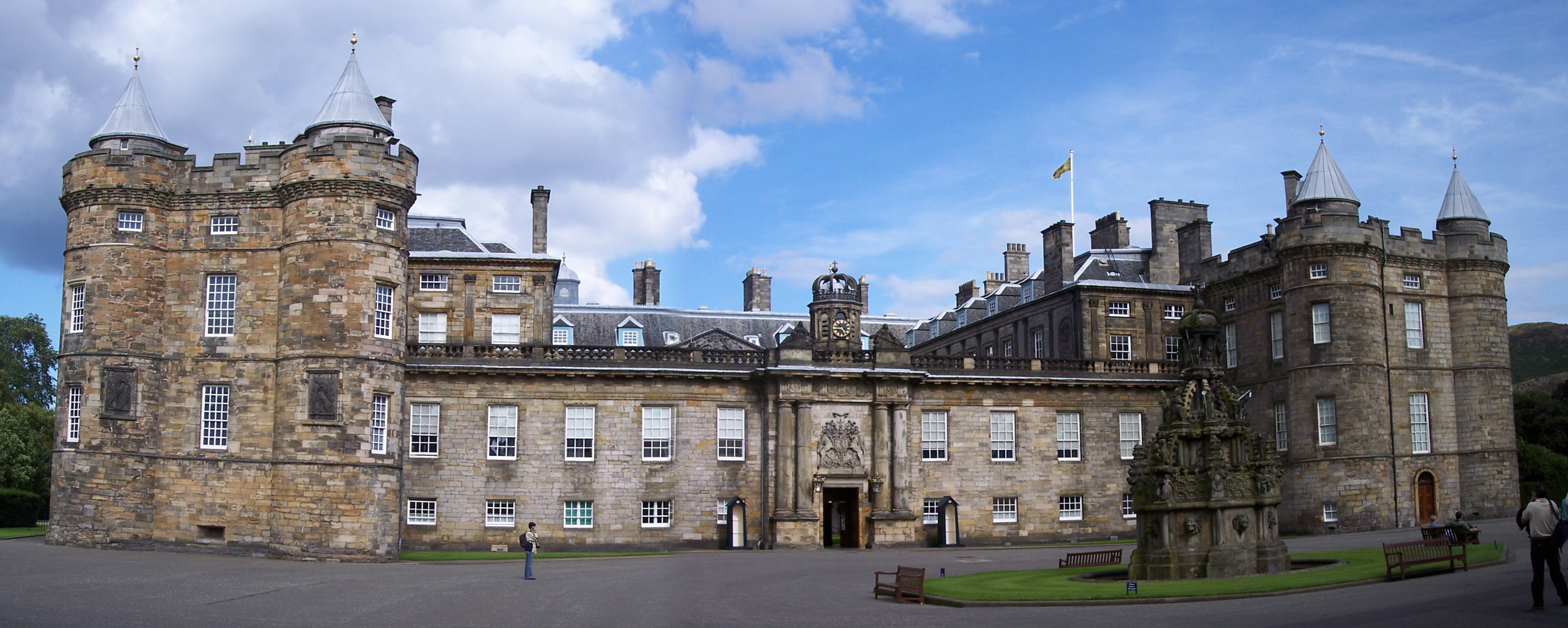 Holyrood Palace - the official residence of the Monarch of the United Kingdom in Edinburgh/Scotland